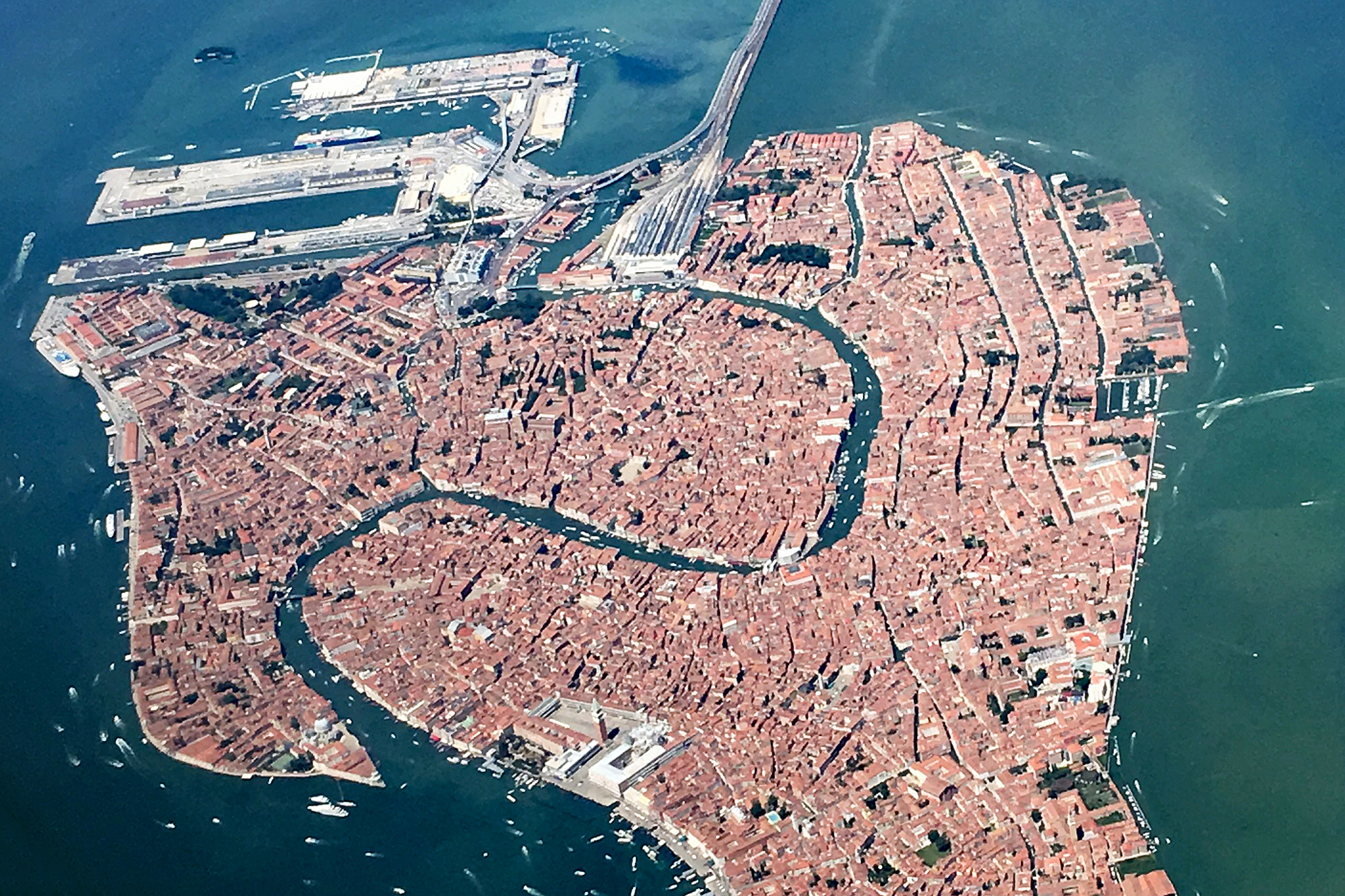 Aerial view of Venice, Italy